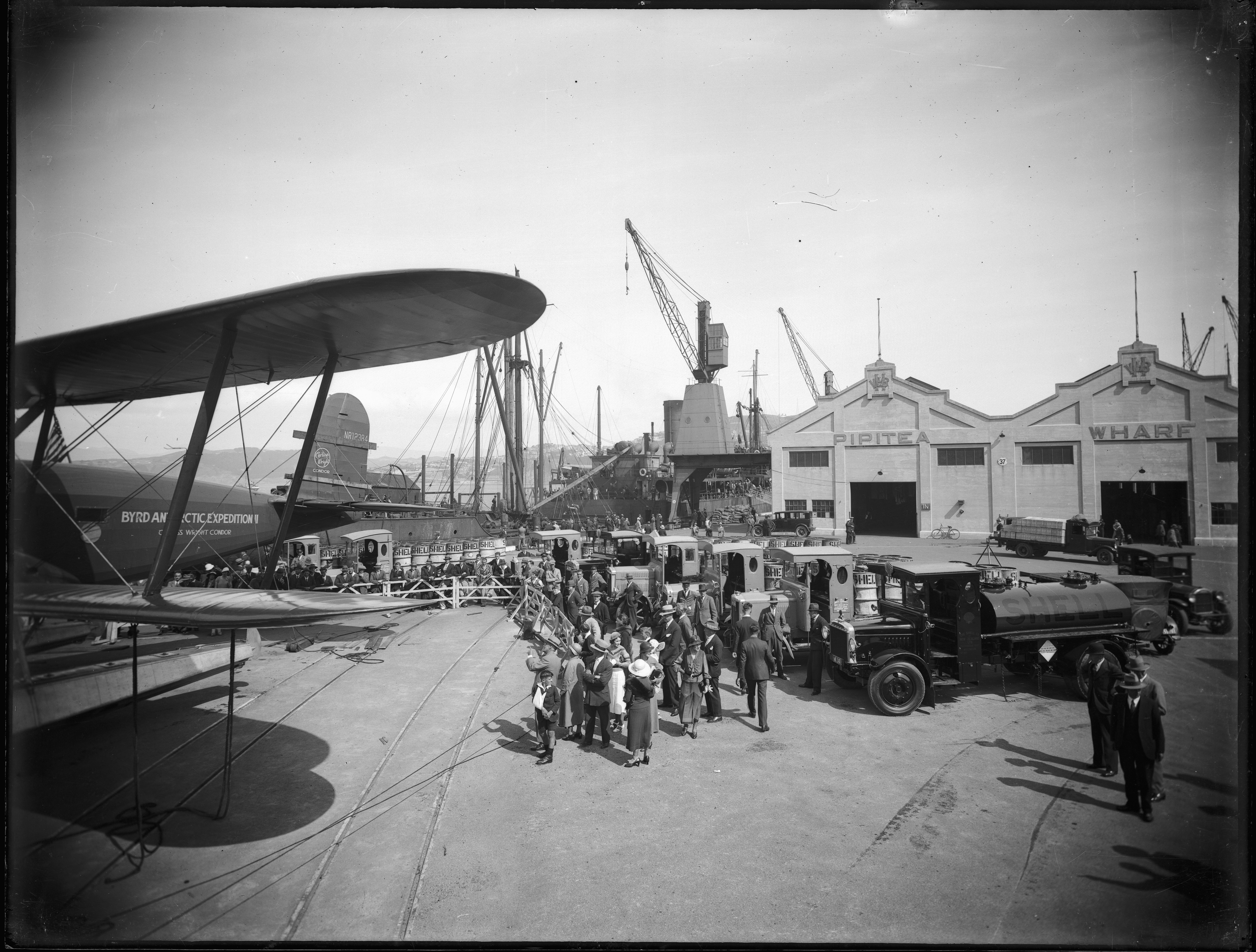 Loading supplies for the second Byrd Antarctic Expedition, Pipitea Wharf, Wellington, 1933 Reference Number: 1/1-021958-G Photographer: William Hall Raine Glass negative Photographic Archive, Alexander Turnbull Library Find out more about this image from the Alexander Turnbull Library.